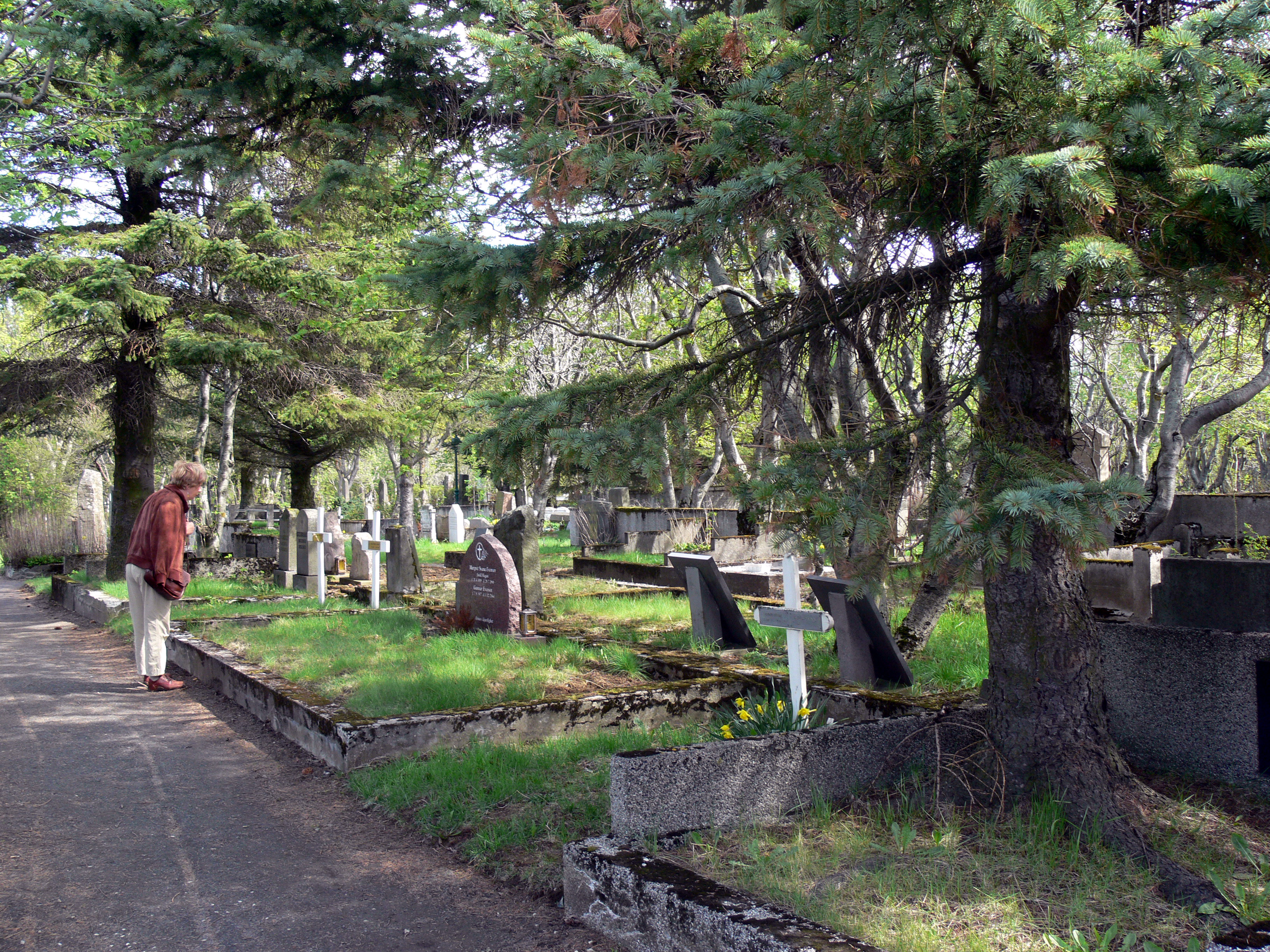 The cemetery Holavallagarður in Reykjavík